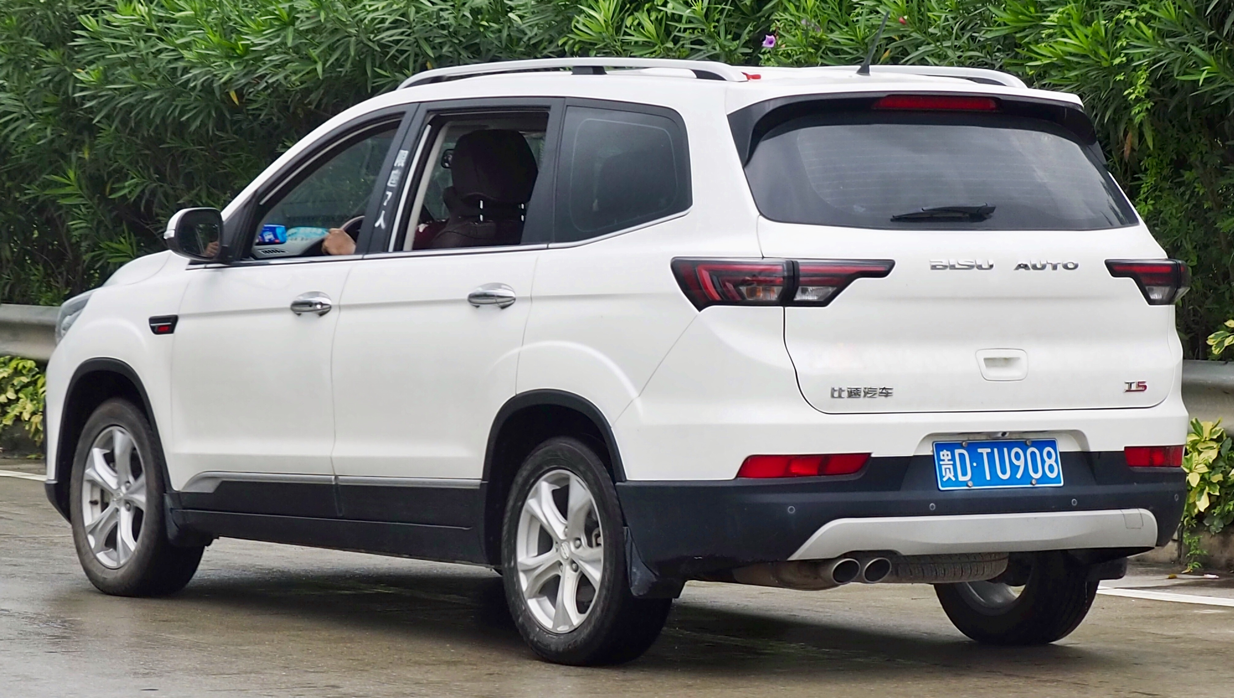 A 2017 Bisu T5 photographed in Zhongshan, Guangdong province, China. 中文（中国大陆）: 一辆2017年的比速T5，拍摄于中国广东省中山市。